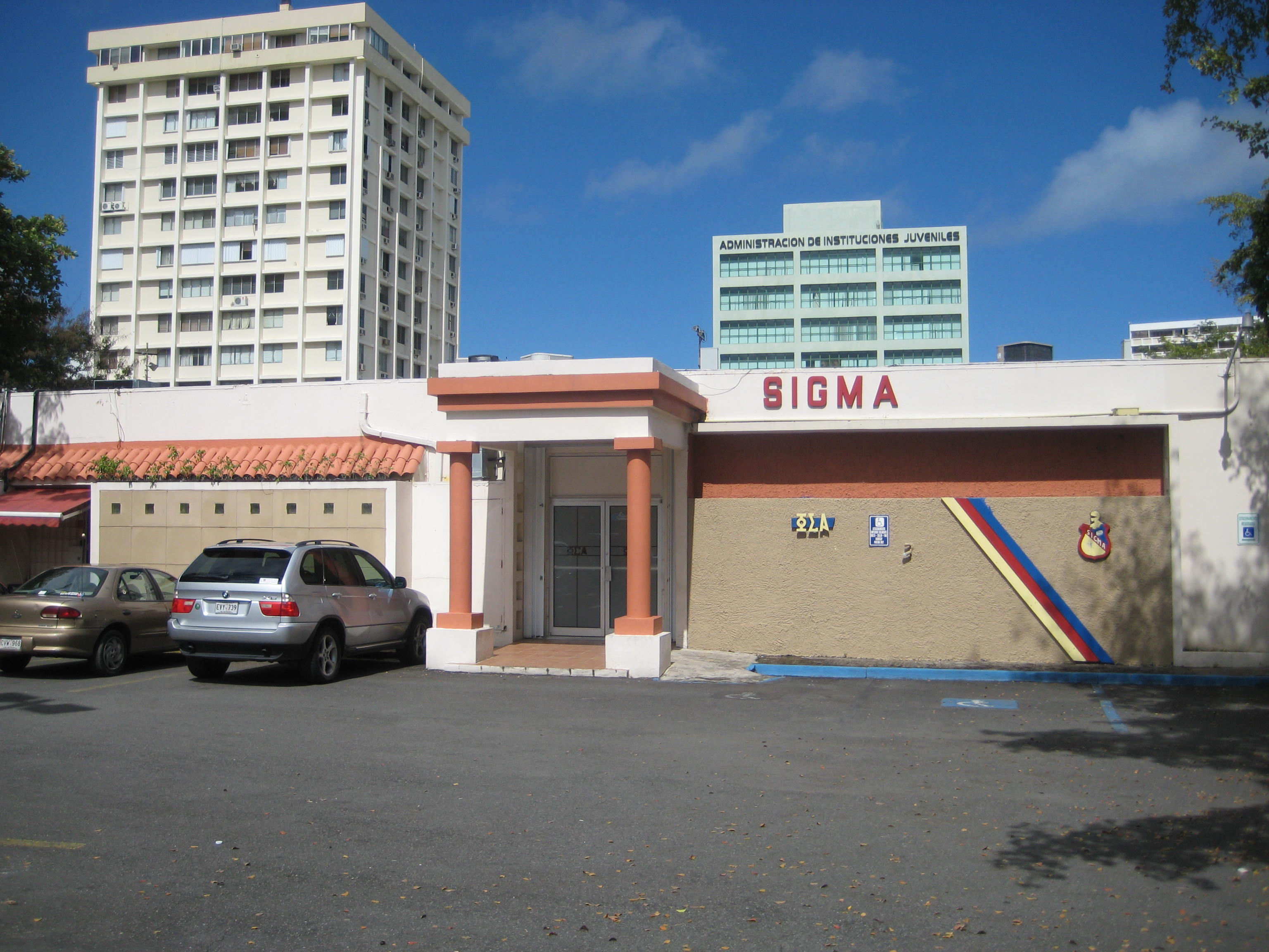 Sigma Club House in Hato Rey, Puerto Rico